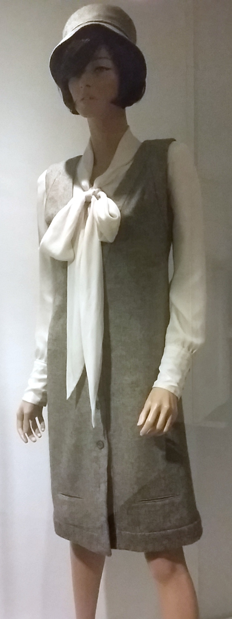 Grey flannel button-through pinafore dress, called 'Rex Harrison,' with cream crepe blouse and grey wool hat. Designed by Mary Quant, the hat by Reed Crawford. Chosen as the first Dress of the Year, 1963.